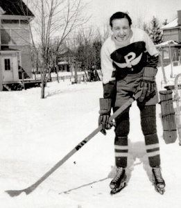 Hilda Ranscombe in Preston Rivulettes uniform with a hockey stick.